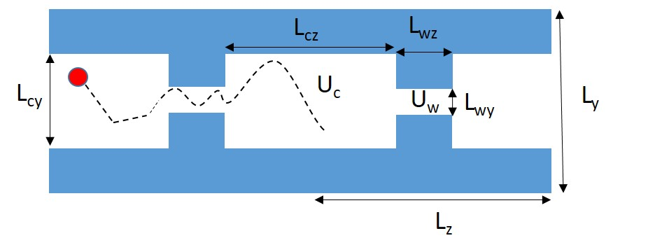 Example of a microporous membrane with large cavities and smaller windows which the molecules can pass through.